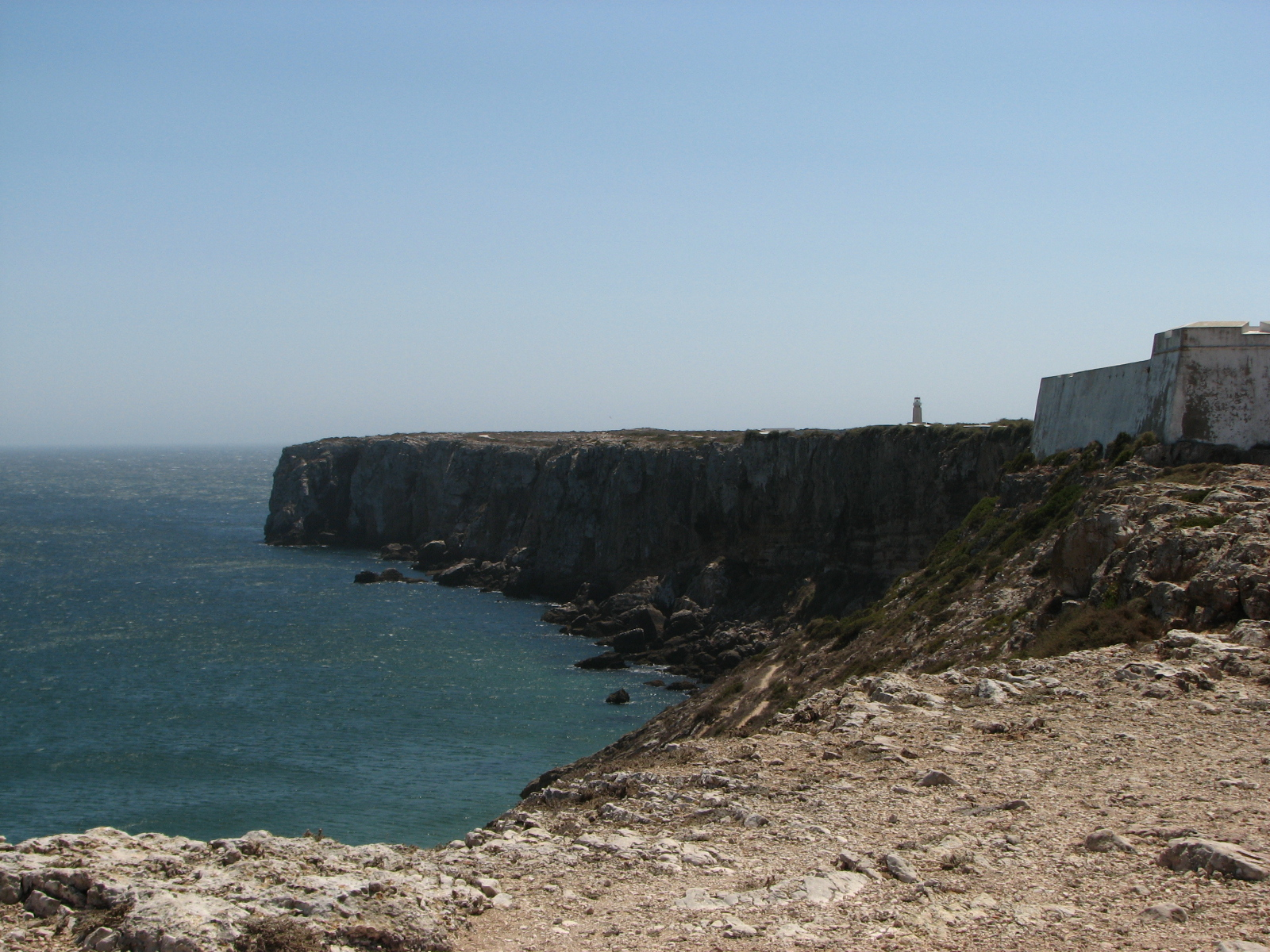 Fortaleza - 'The end of the world' - Sagres - The Algarve, Portugal